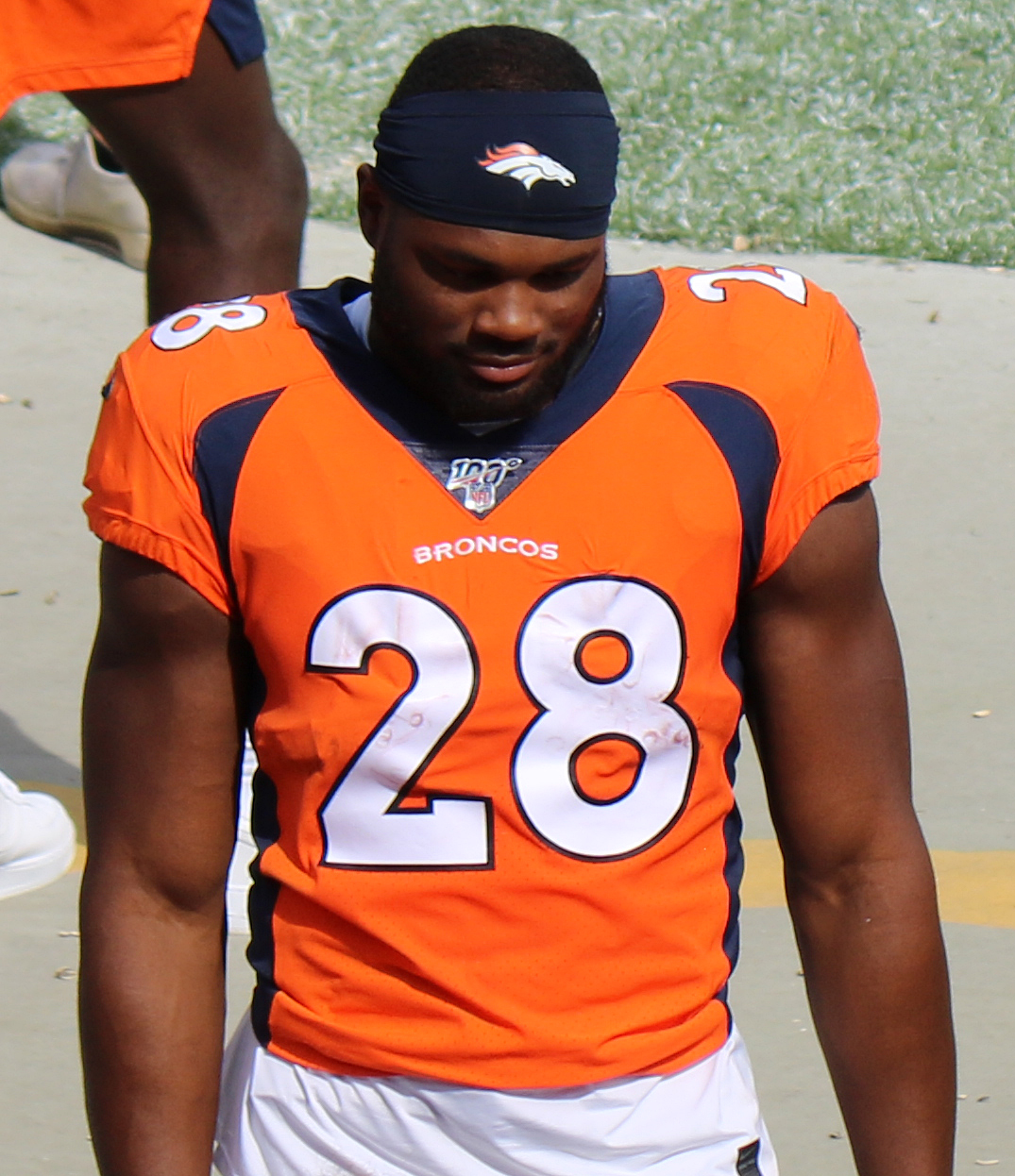 Royce Freeman, a National Football league player.